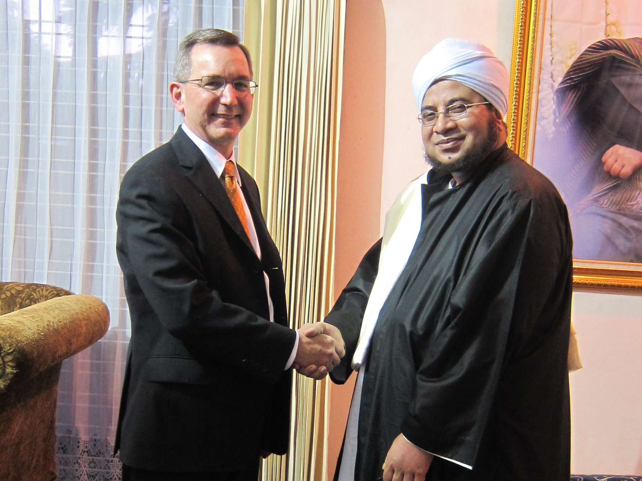 U.S. Ambassador Scot Marciel met the well-known spiritual leader Habib Munzir bin Fuad al-Musawa at the cleric’s residence on January 9, 2013